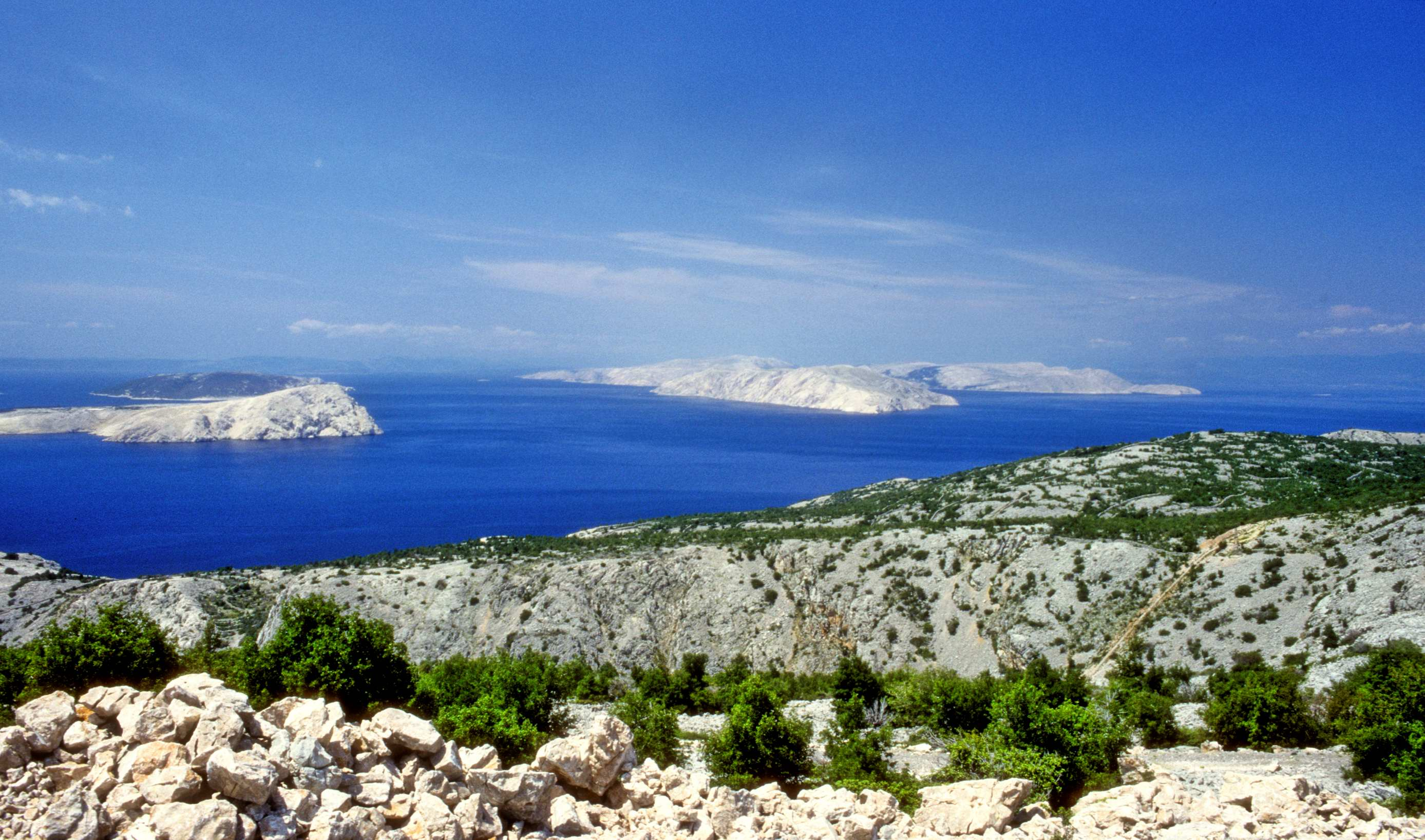 Coastline Croatia